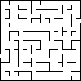 An unsolved picture maze.